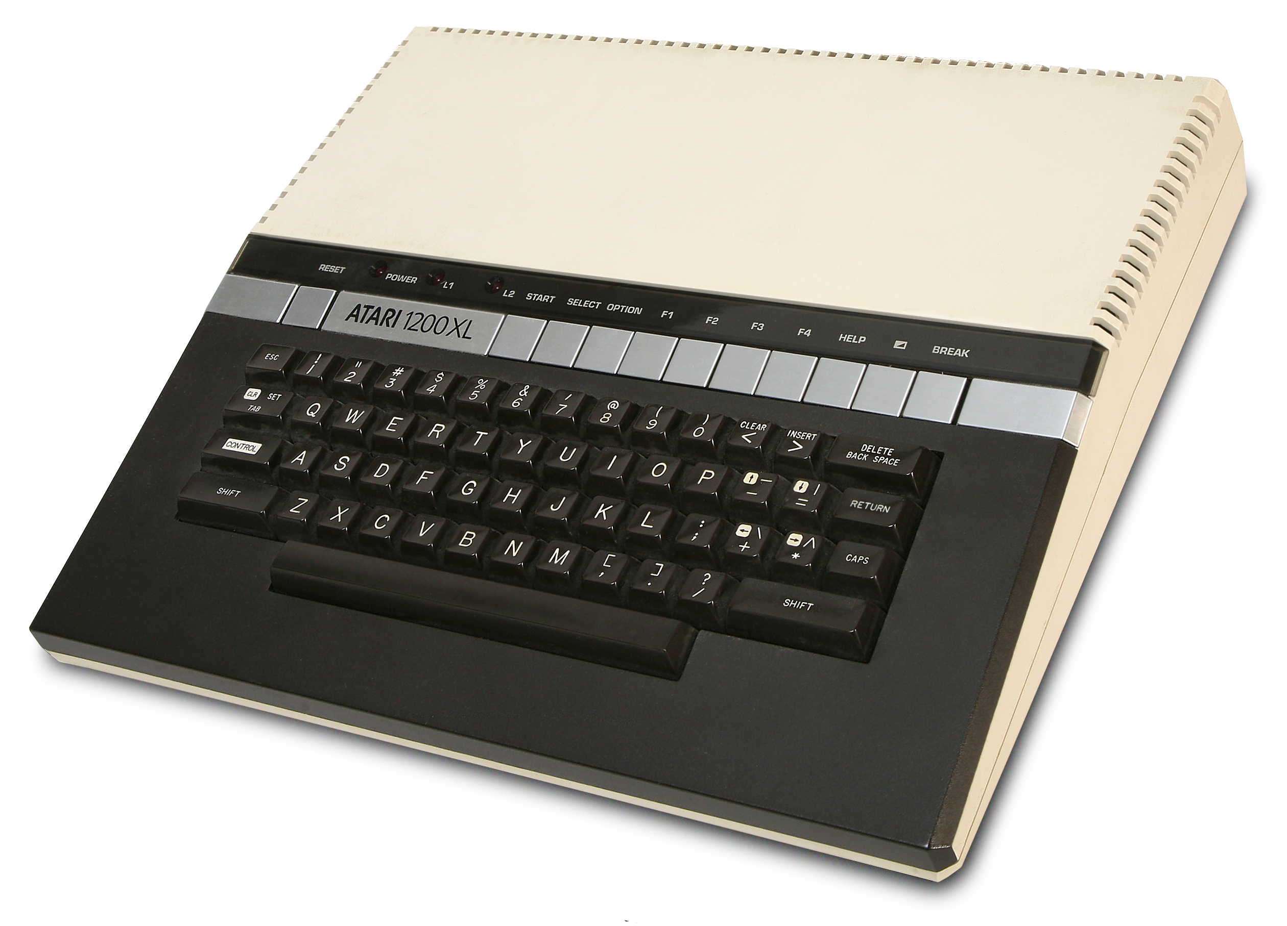 Atari 1200XL computer, from the collection of The Children's Museum of Indianapolis